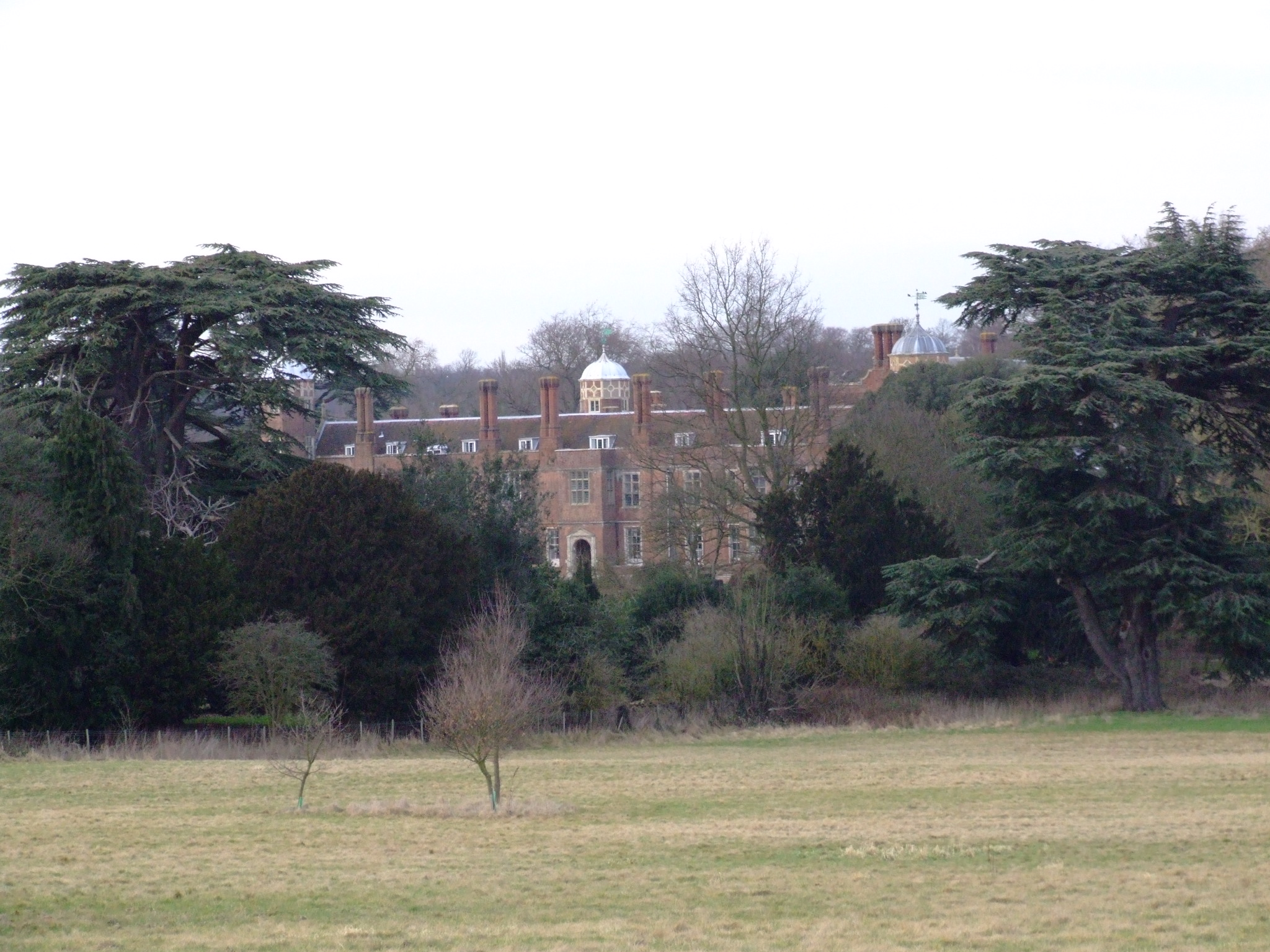 Cobham Hall, the rear aspect viewed from the golf course